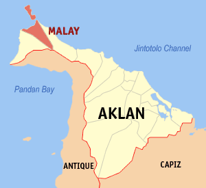 Map of Aklan showing the location of Malay